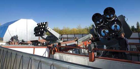 RAPTOR T and K telescopes at Fenton Hill Observatory, New Mexico, USA